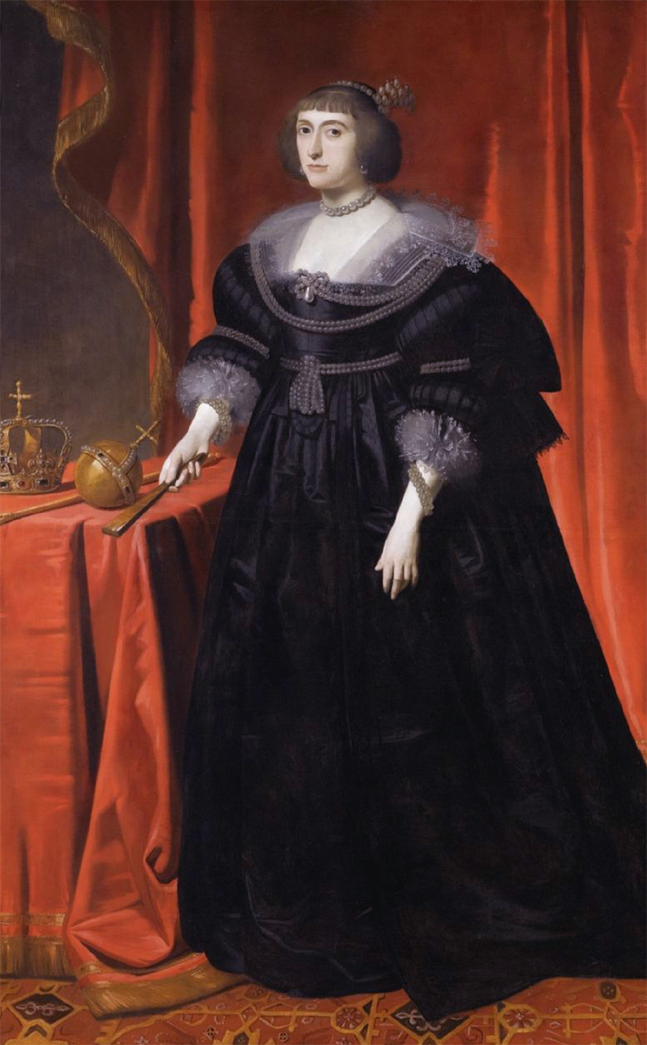 Born 16 August 1596 at Dunfermline Palace, Fife, as Princess Elizabeth of Scotland; married 14 February 1613 to Frederick V, Elector Palatine, at the royal chapel at the Palace of Whitehall; died 13 February 1662 at Leicester House, Westminster; for her husband's short reign as King of Bohemia (1619-20) she is often nicknamed the Winter Queen.